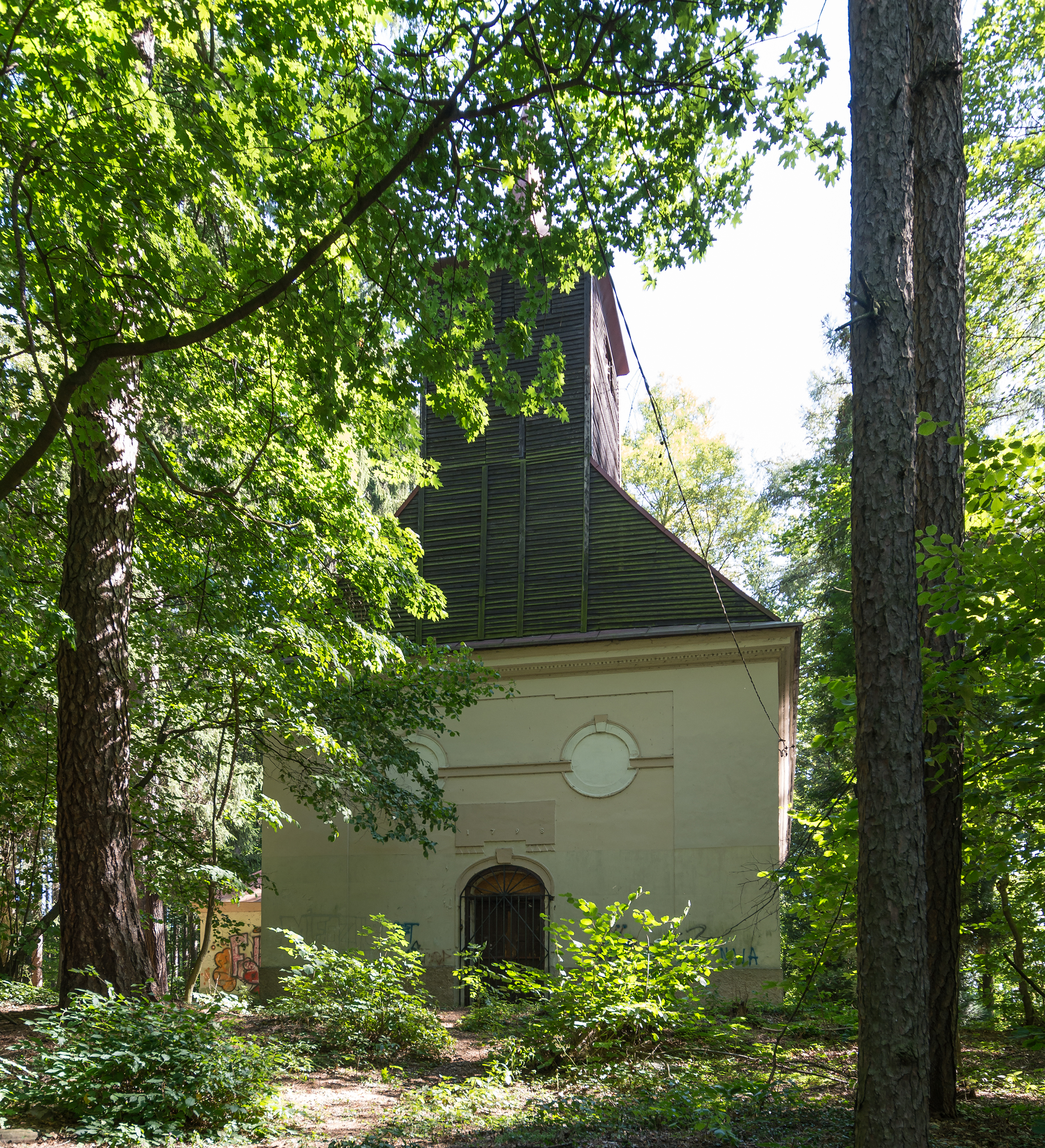 Lutheran church in Kudowa-Zdrój Wikidata has entry Q30047749 with data related to this item.